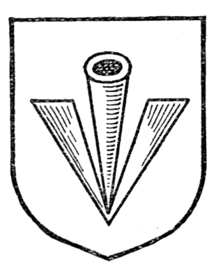 Fig. 503.—Broad arrow.